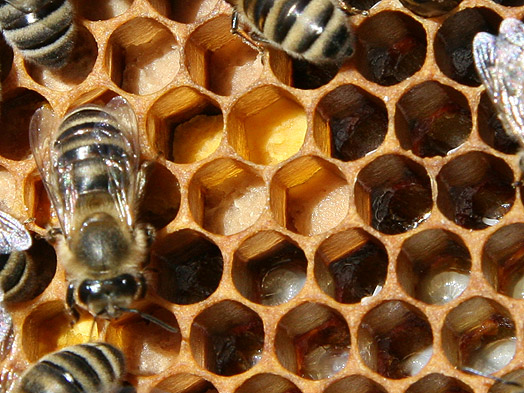 Pollen in a honeycomb